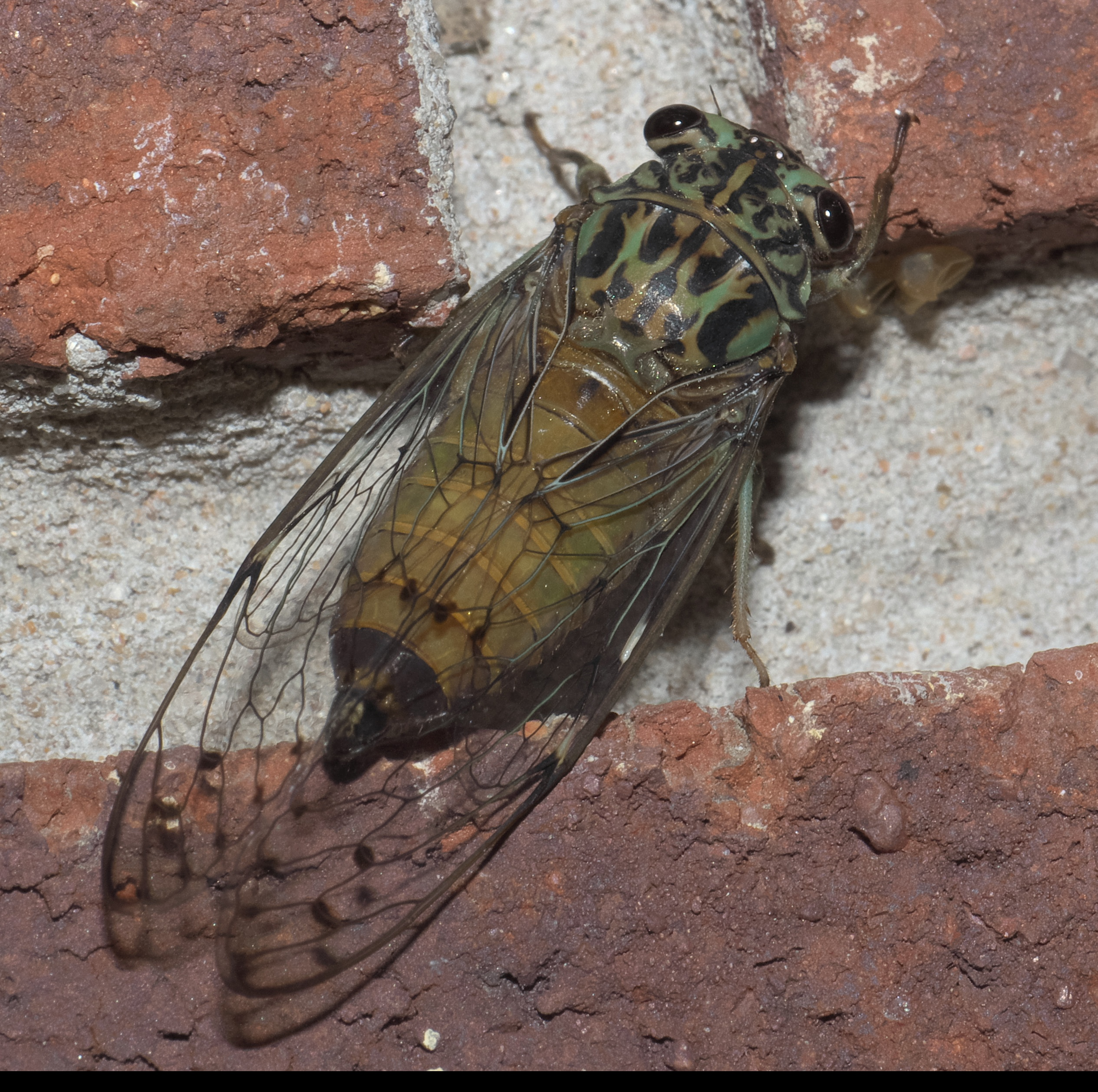 Neocicada hieroglyphica, Hieroglyphic Cicada, ID Confidence: 90